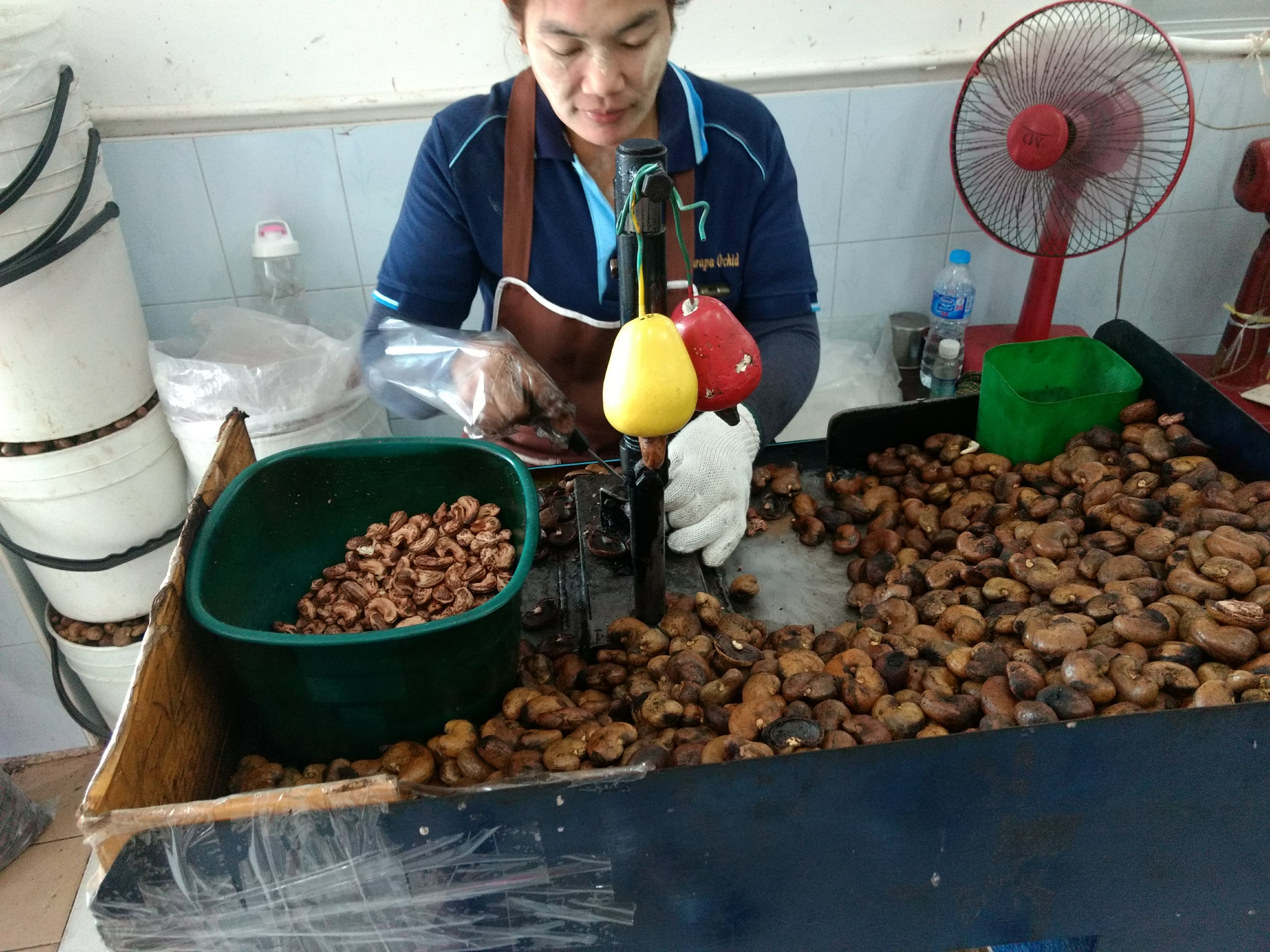 A woman uses a machine to shell cashews in Phuket, Thailand.